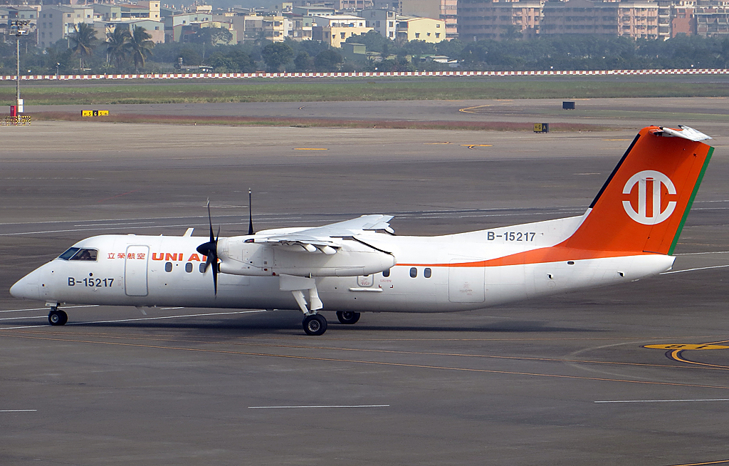 B-15217 DHC-8-314 of Uni Air at Kaohsiung on January 6, 2013.